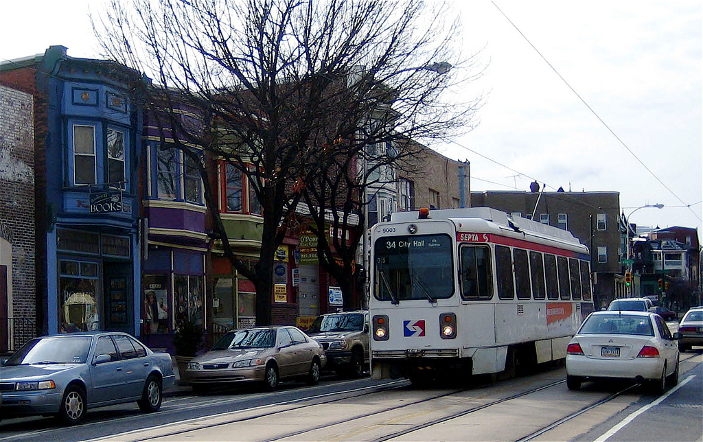 SEPTA's Kawasaki trolley No. 9003 rolls eastward in the 4500 block of Baltimore Avenue, near Studio 34: Yoga Healing Arts in Philadelphia, Pennsylvania.